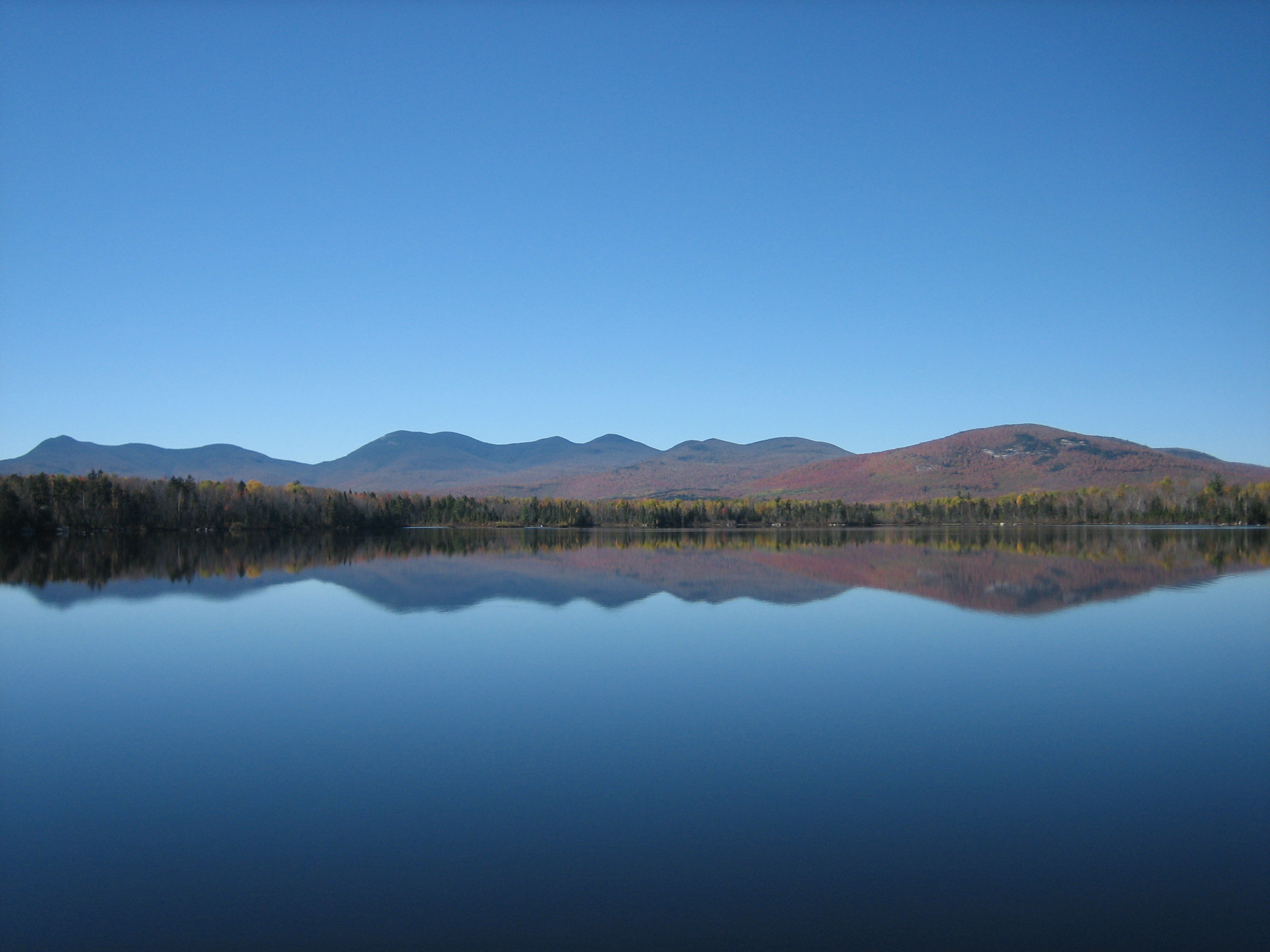 Jericho Mountain State Park, Berlin NH Taken On: 10/7/2006